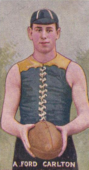 Cigarette card of Arthur Ford from the Sniders & Abrahams 1906 series